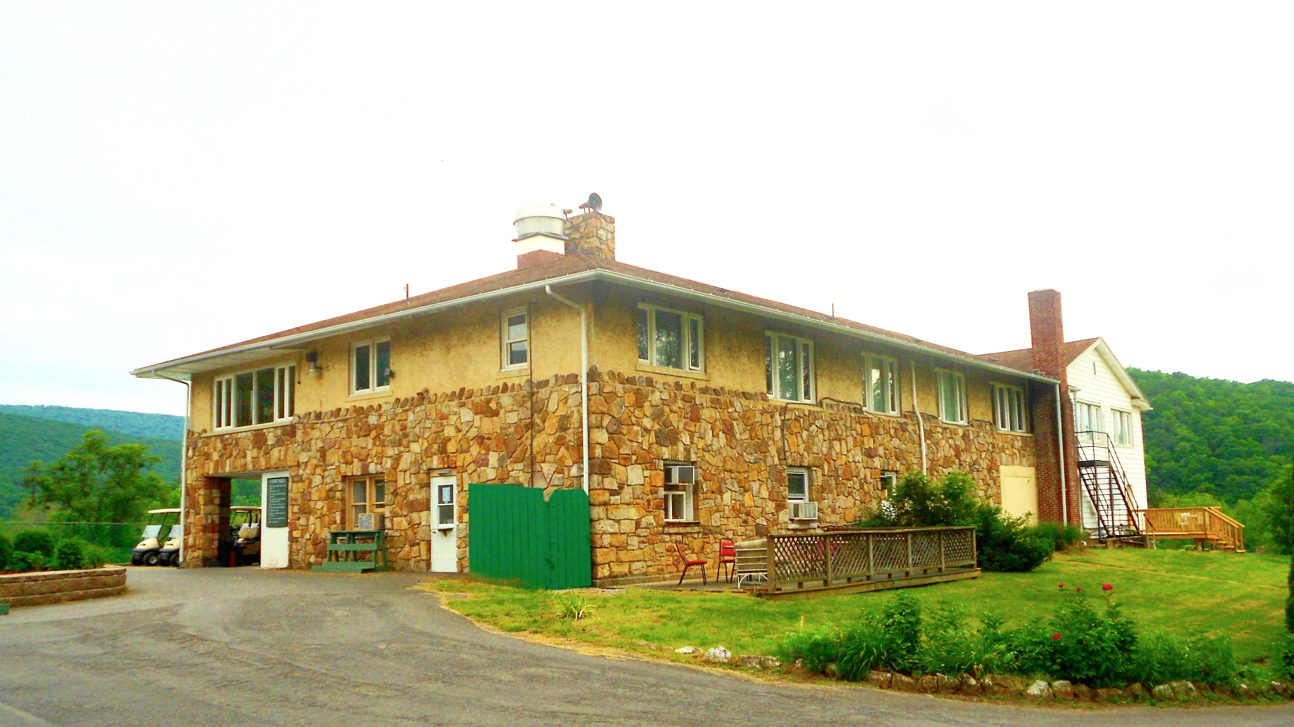 The Pro shop (and maybe the clubhouse as well) of the American Legion Country Club of Mount Union, Pennsylvania. This is about the southernmost point of Mifflin County, Pennsylvania in Wayne Township. Mount Union, PA is in Huntingdon County about 5 miles away